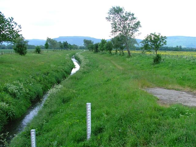 Flood Diversion Channel, Stokesley. The River Leven was notorious for bursting its banks at Stokesley. The town centre has been flooded on many occasions. This diversion channel is part of a successful scheme built in the 1970's to prevent such flooding.